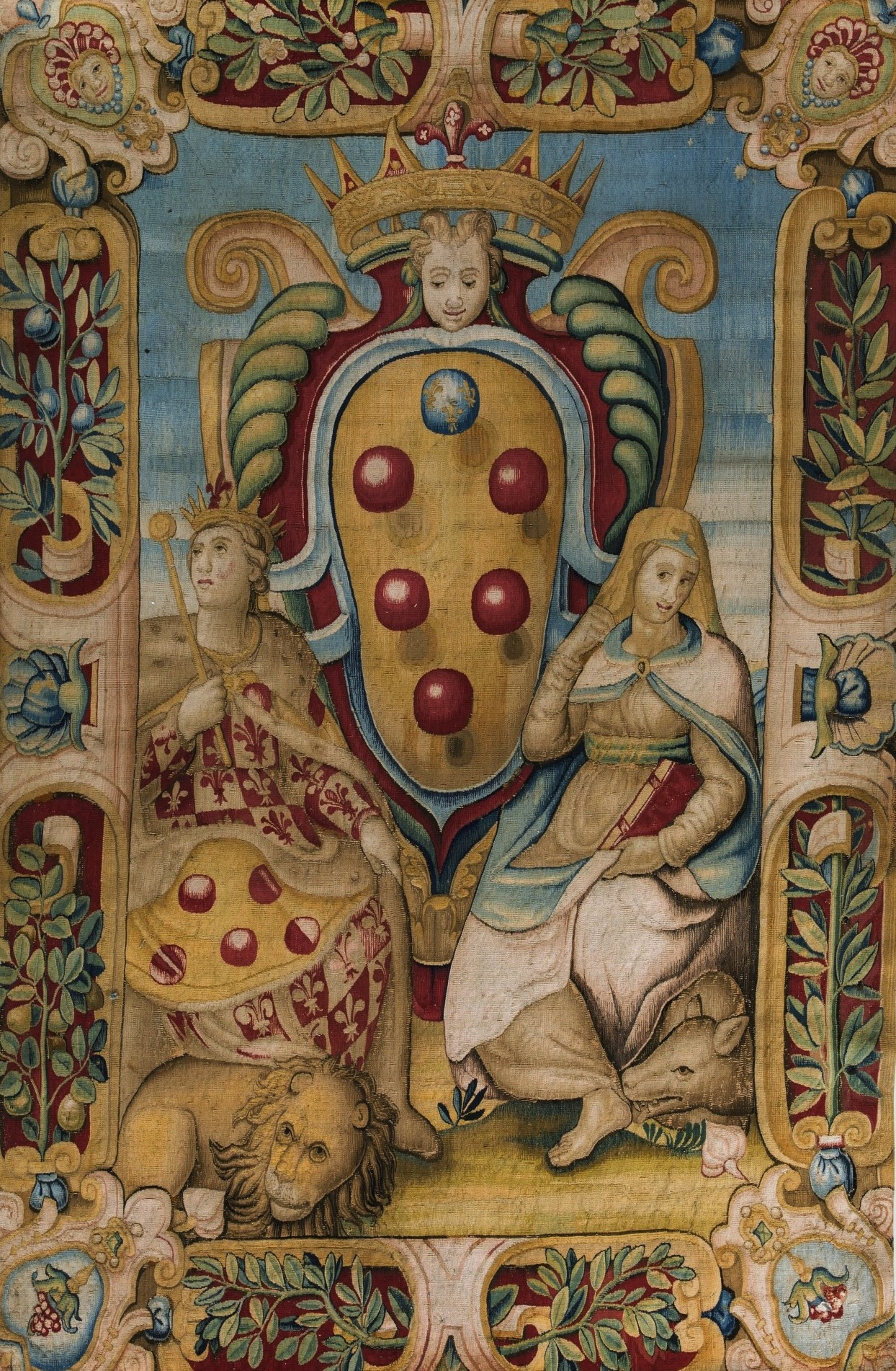 The Medici Wedding Tapestry of 1589. wedding of Ferdinando I de'Medici, Grand-Duke of Tuscany, and Christina of Lorraine, in 1589. By Alessandro Allori, and woven in the Grand-Ducal workshops of Guasparri di Bartolommeo Papini. WESTBURY, Bath